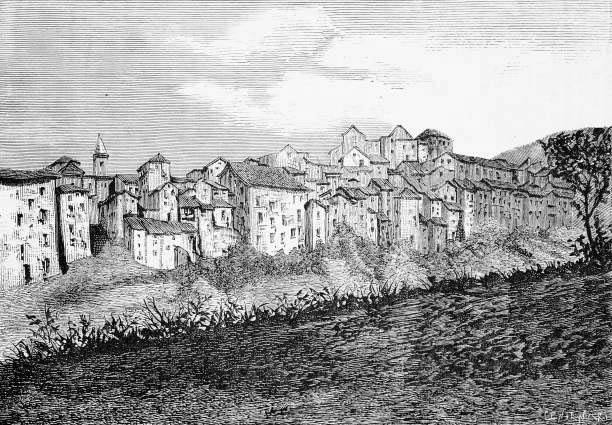 View of Carpineto Romano, Lazio, Italy, birthplace of Pope Leo XIII.